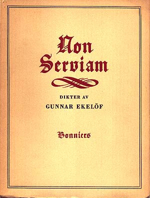 Book cover of Gunnar Ekelöf: Non Serviam.